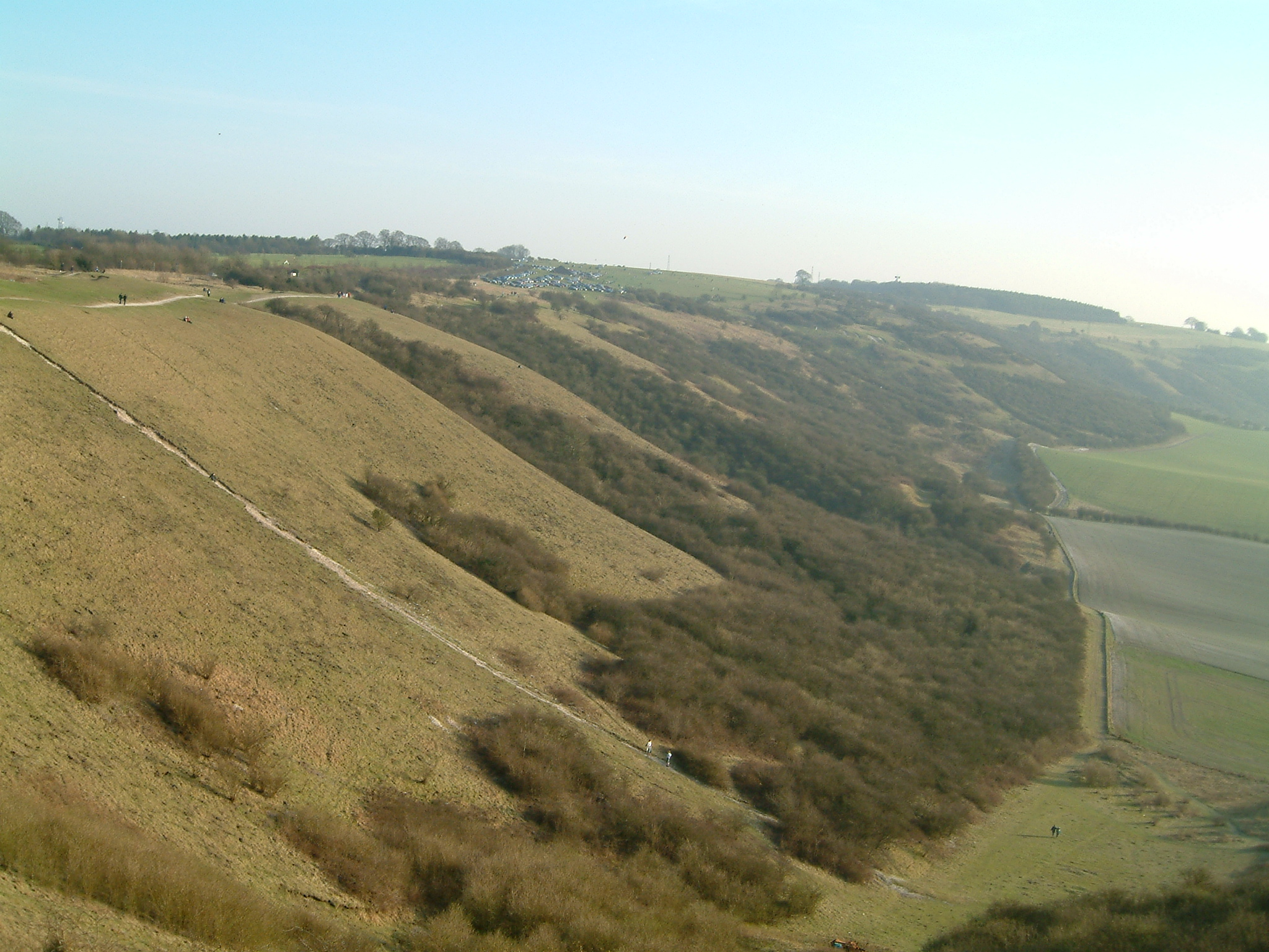 Dunstable Downs, part of the Chiltern Hills near Dunstable in Bedfordshire